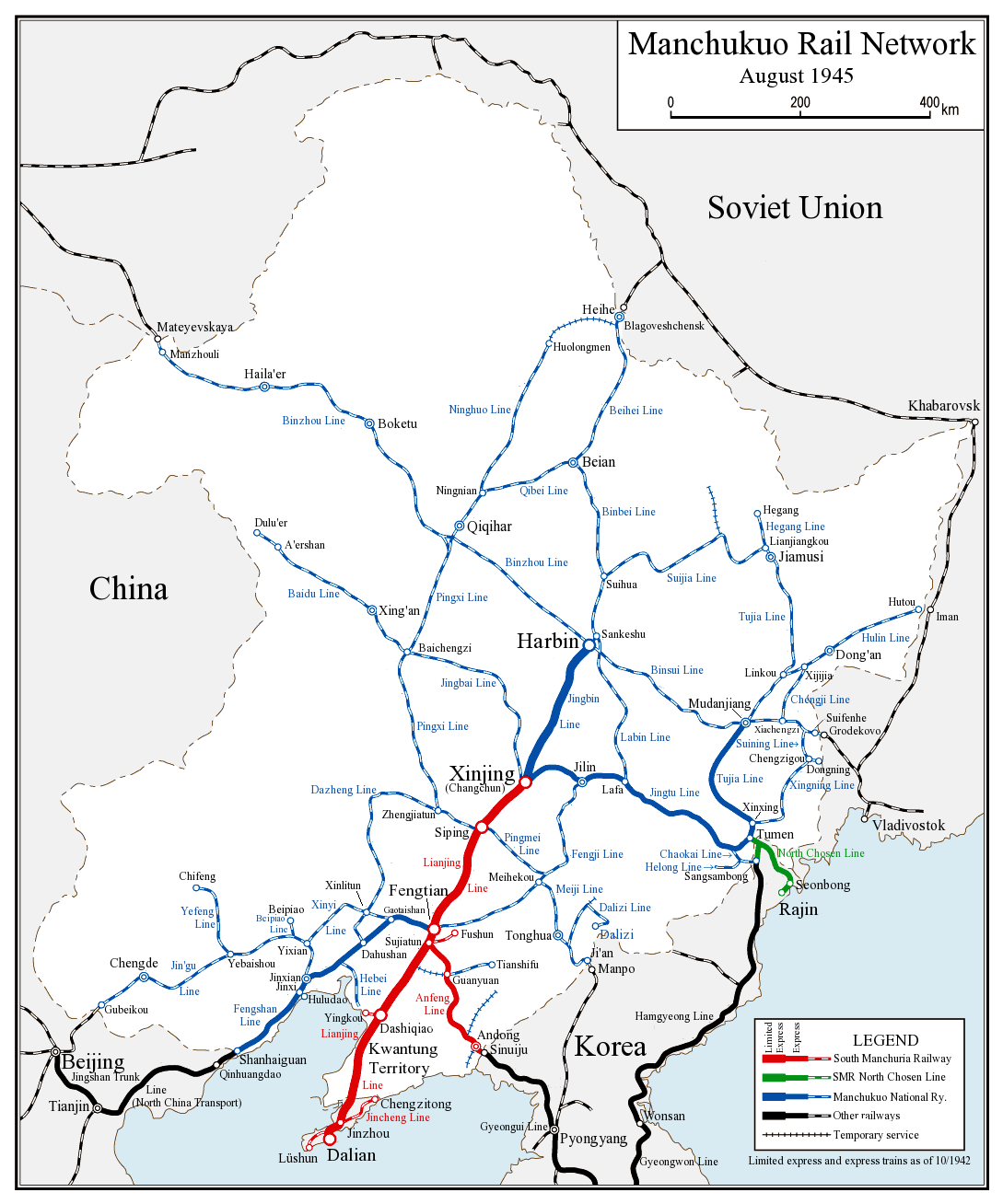 Map of the railway network of Manchukuo. Based on Manchukuo Railmap jp.gif at ja.wiki